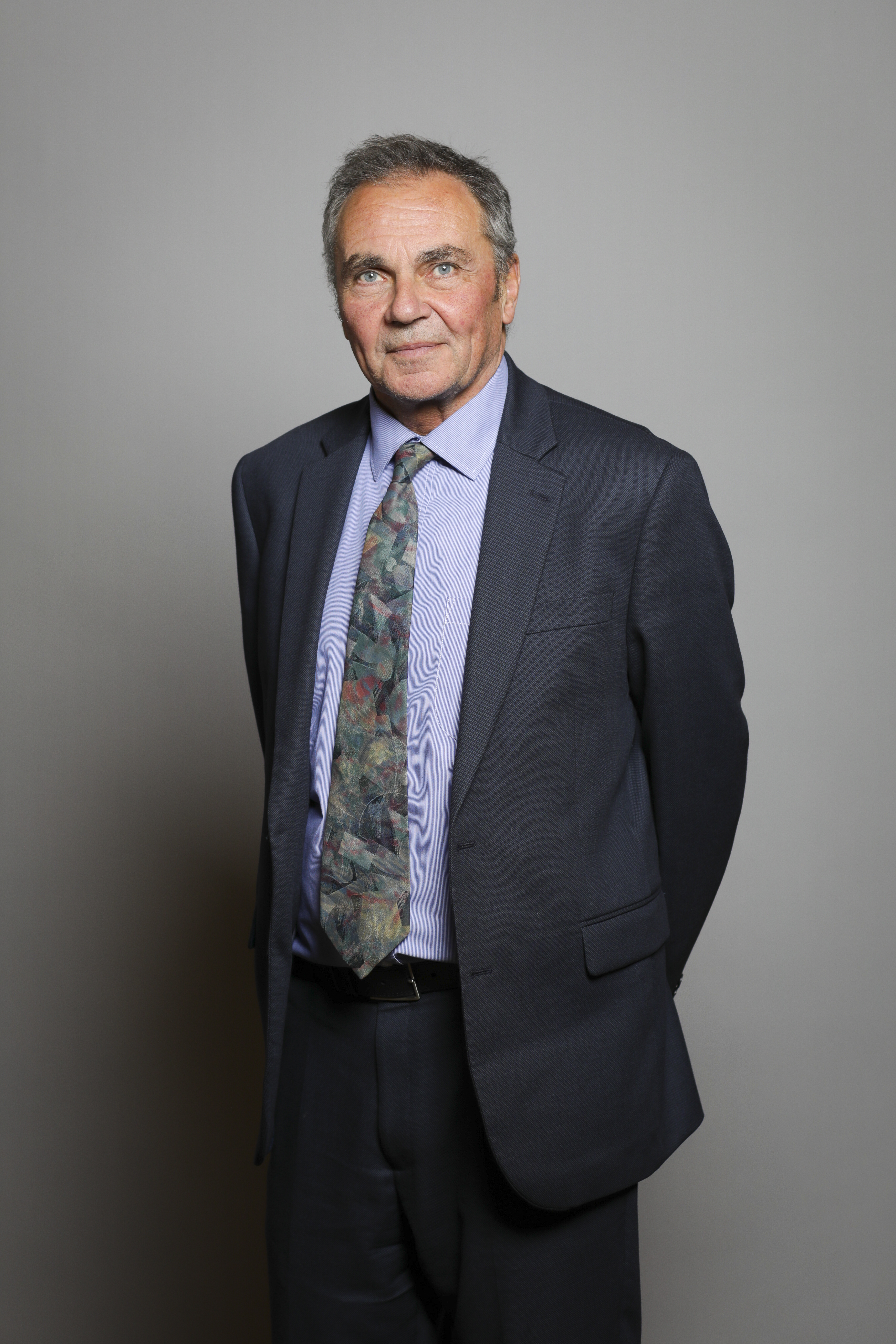 Official portrait of Lord Lennie Full sized portrait of Lord Lennie